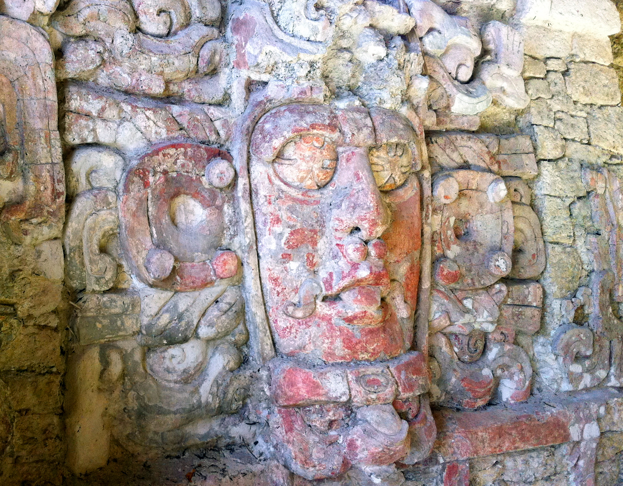 image of a Mayan Sun God in Kohunlich Mexico